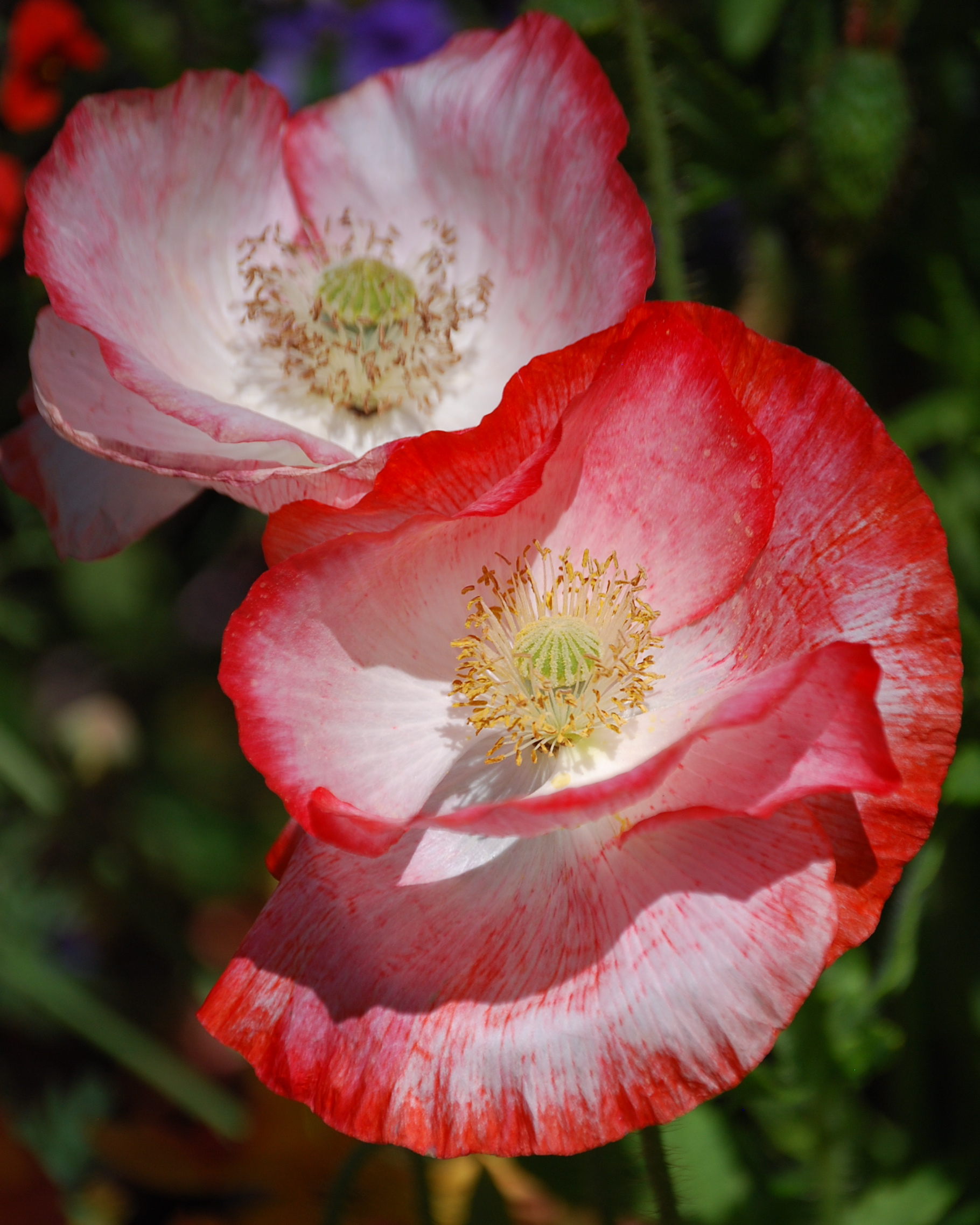 Papaver 'Falling in Love'